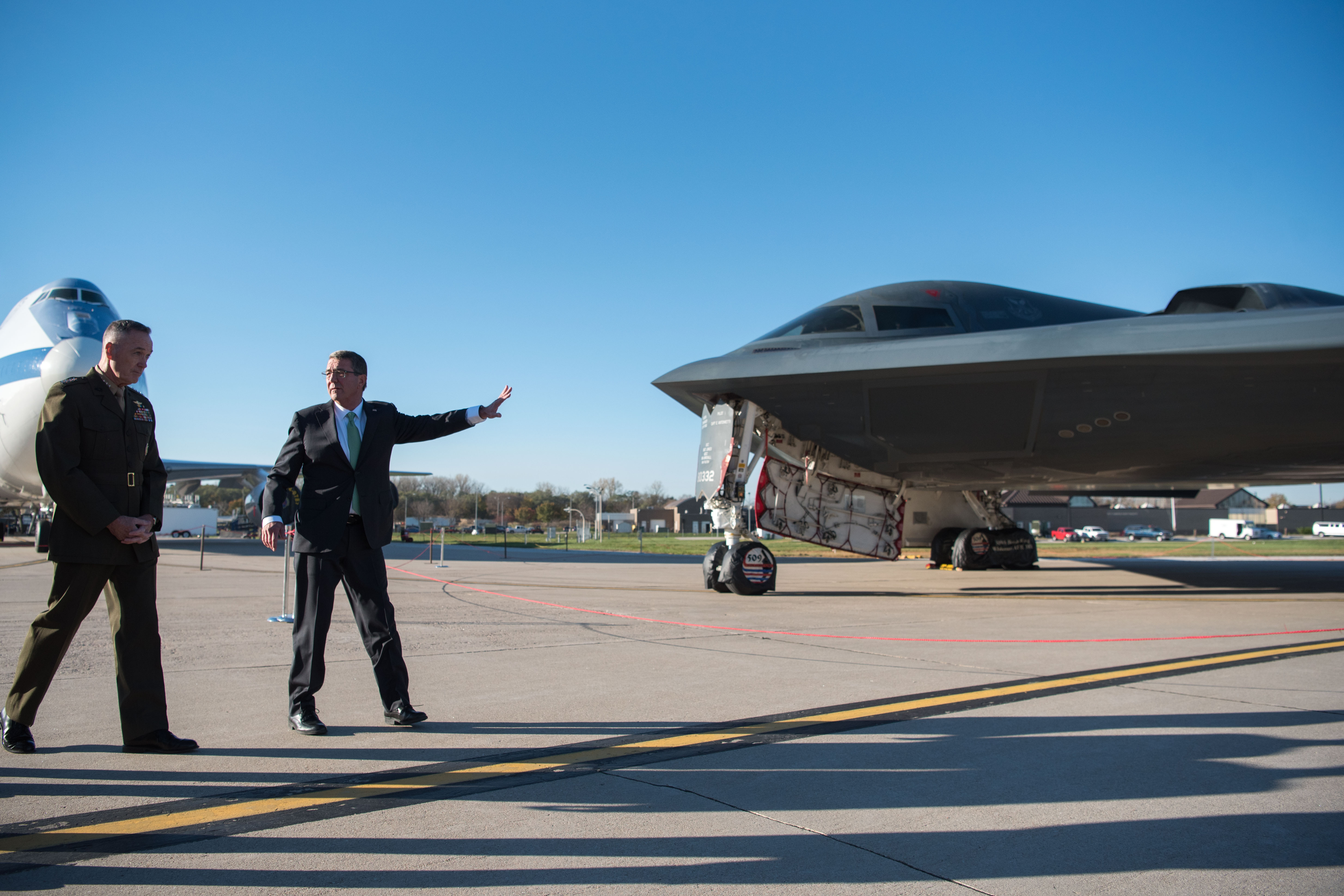 Marine Gen. Joseph F. Dunford Jr., chairman of the Joint Chiefs of Staff, and Defense Secretary Ash Carter participate in the Strategic Command change of command ceremony at Offutt Air Force Base, Omaha, Nebraska Nov. 3, 2016. Air Force Gen. John E. Hyten assumes command from Navy Adm. Cecil D. Haney. DoD Photo by Navy Petty Officer 2nd Class Dominique A. Pineiro.